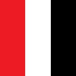 Basic outline of the club's jumper.